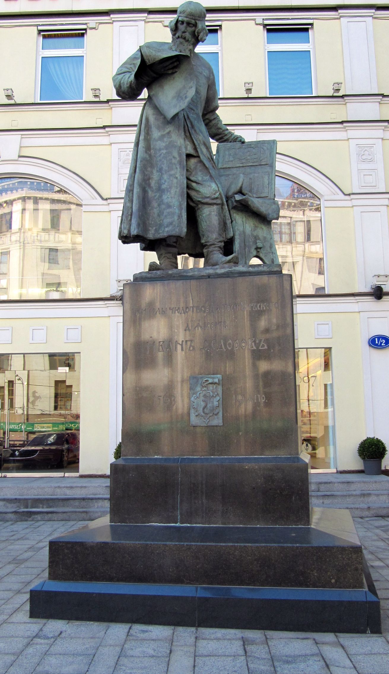 Ivan Fyodorov - first printer of Russia